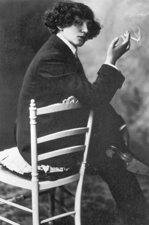 Henri Manuel (24 April 1874, Paris – 11 September 1947, Neuilly-sur-Seine) was a Parisian photographer who served as the official photographer of the French government from 1914 to 1944.